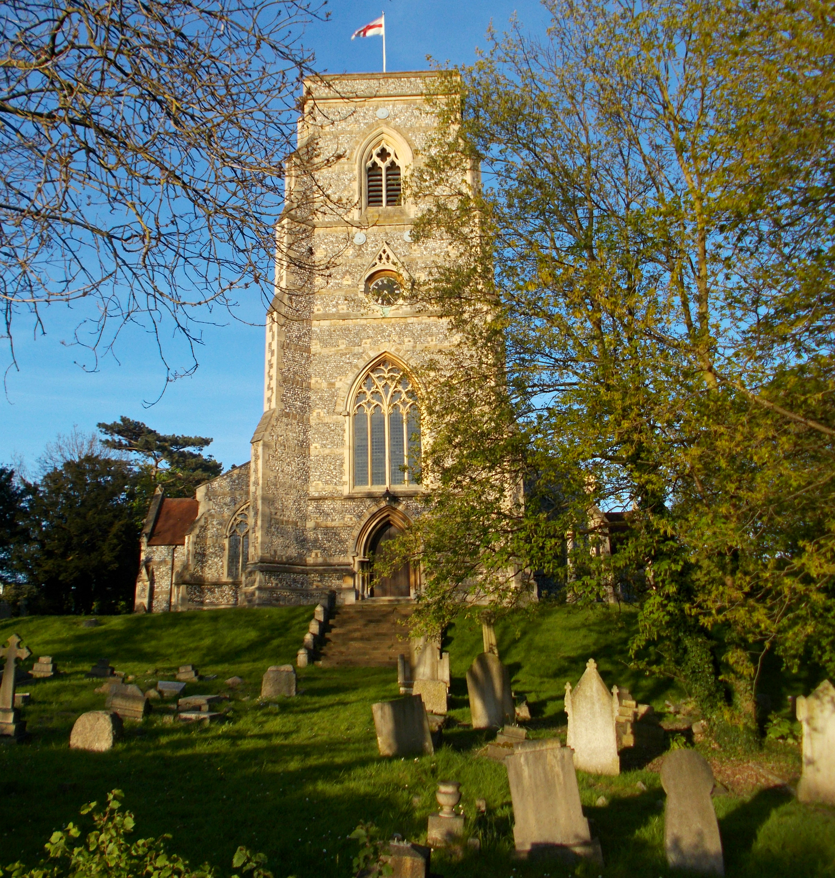 All Saints' parish church, All Saints' Road, Sutton, south London (formerly Surrey), seen from the west